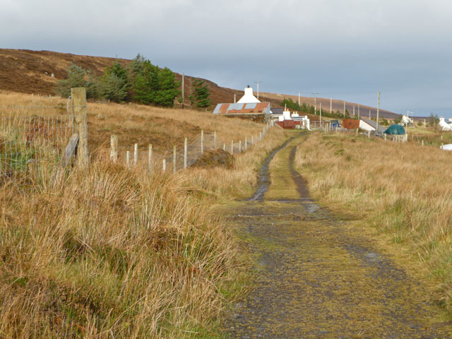 Track to Gillen